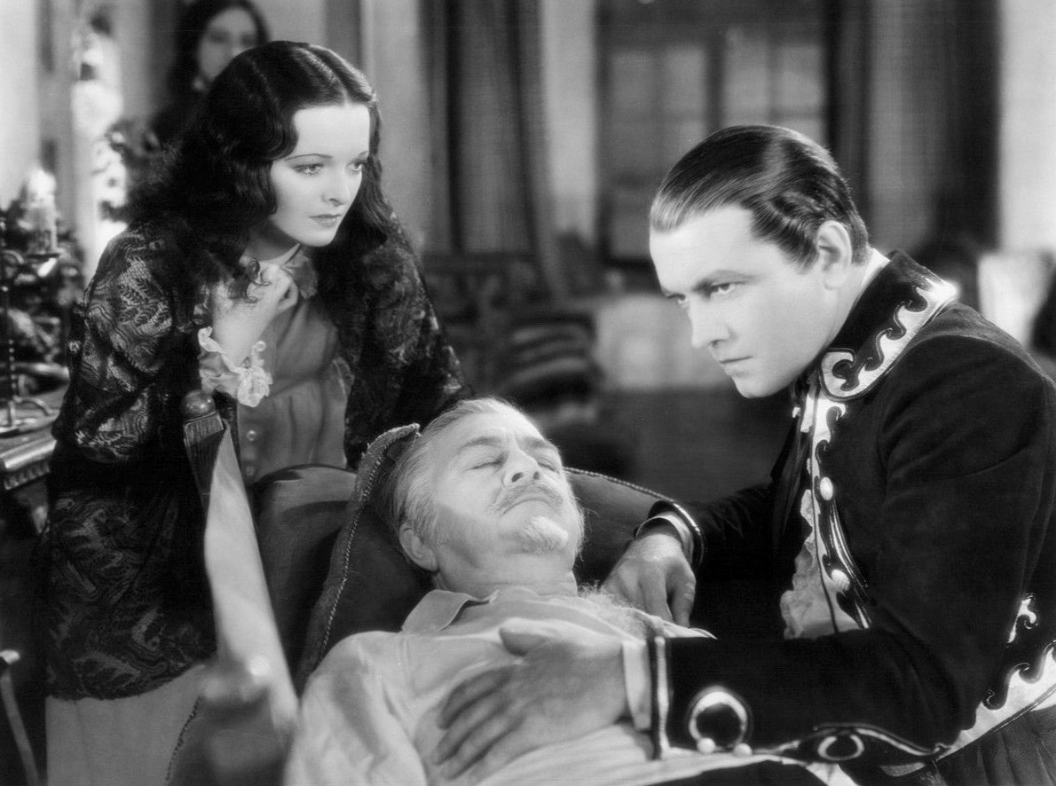 Marian Nixon, Robert Edeson, and Richard Barthelmess in a scene from the 1930 film The Lash.